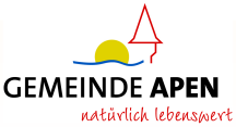 apen signet